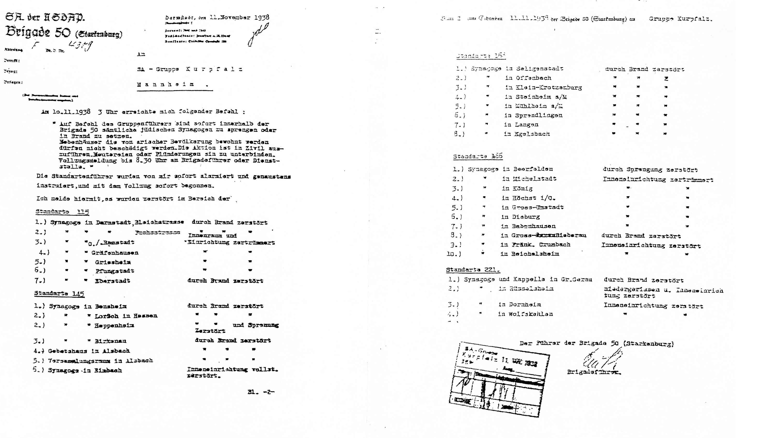 Report dated November 11, 1938 of SA Brigadeführers Lucke of the destruction of synagogues of Darmstadt and neighbour during Kristalnacht